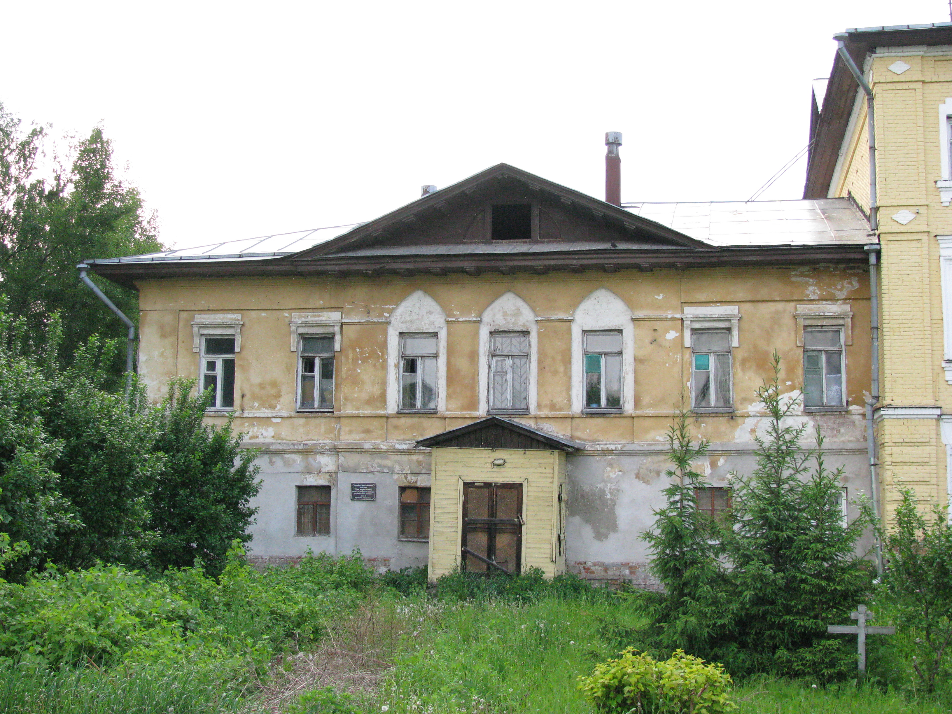 Hegumen's house in Gorny monastery in Vologda